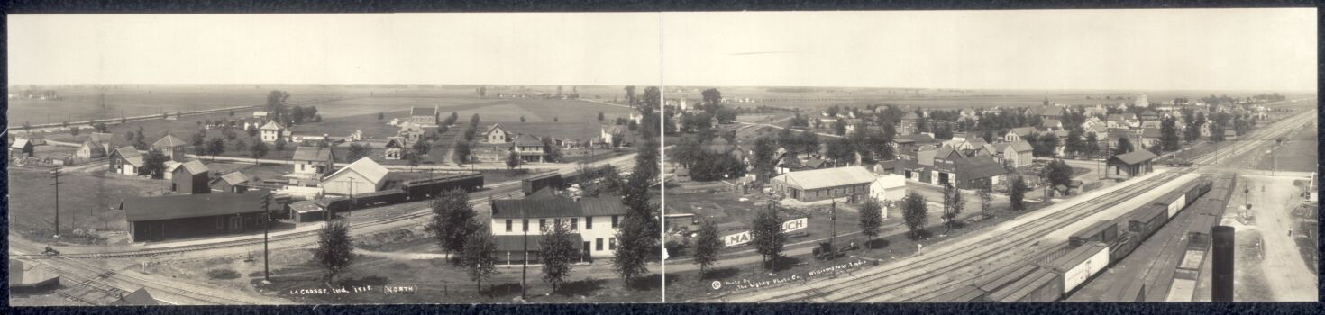 Panoramic View of La Crosse,Indiana